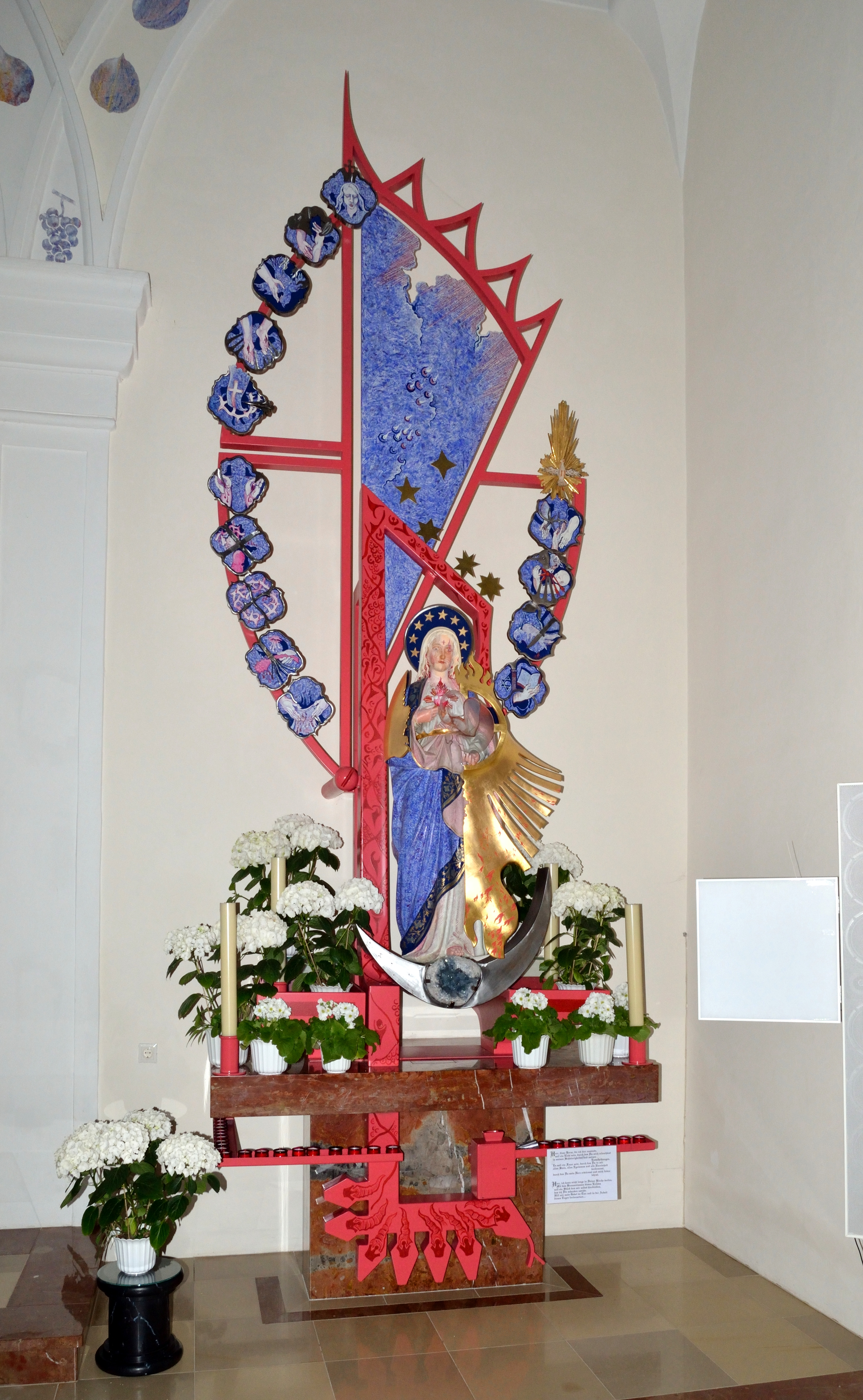 The parish church hll. Simon und Judas, Weißenkirchen an der Perschling, Lower Austria, is protected as a cultural heritage monument. The interior of the church was recreated and restaurated by artist Helmut Lutz and opened in April 2009.